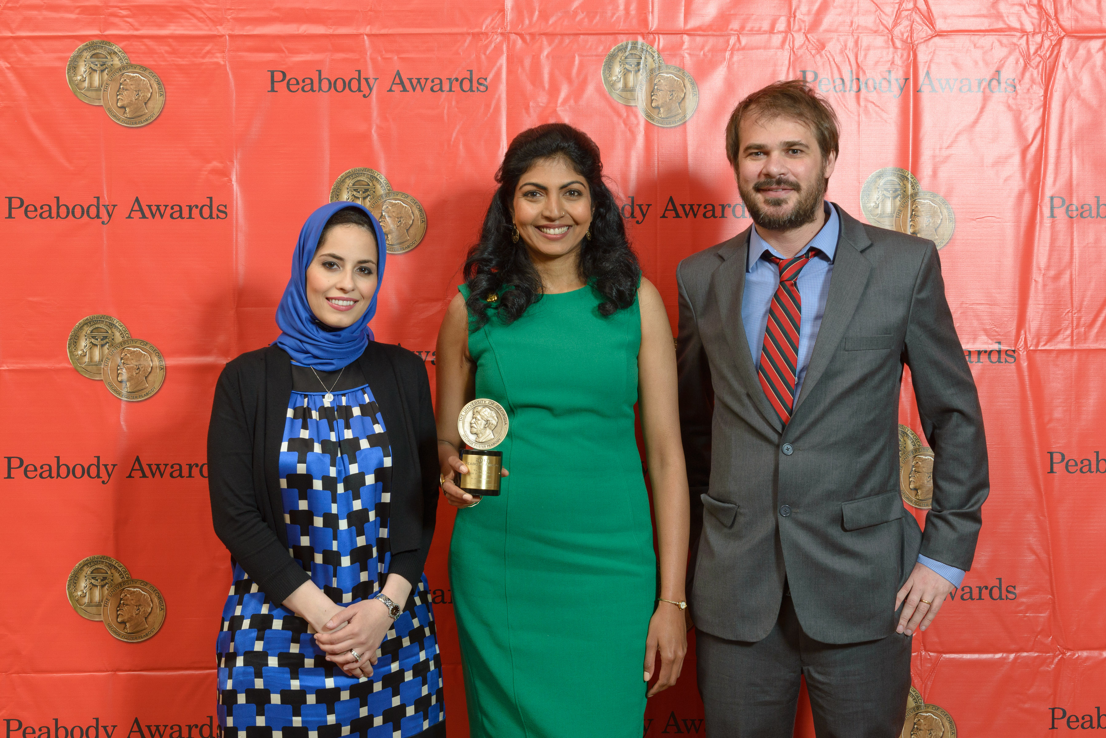 Laila Al-Arian, Anjali Kamat and Mat Skene at the 73rd Annual Peabody Awards for "Made in Bangladesh"